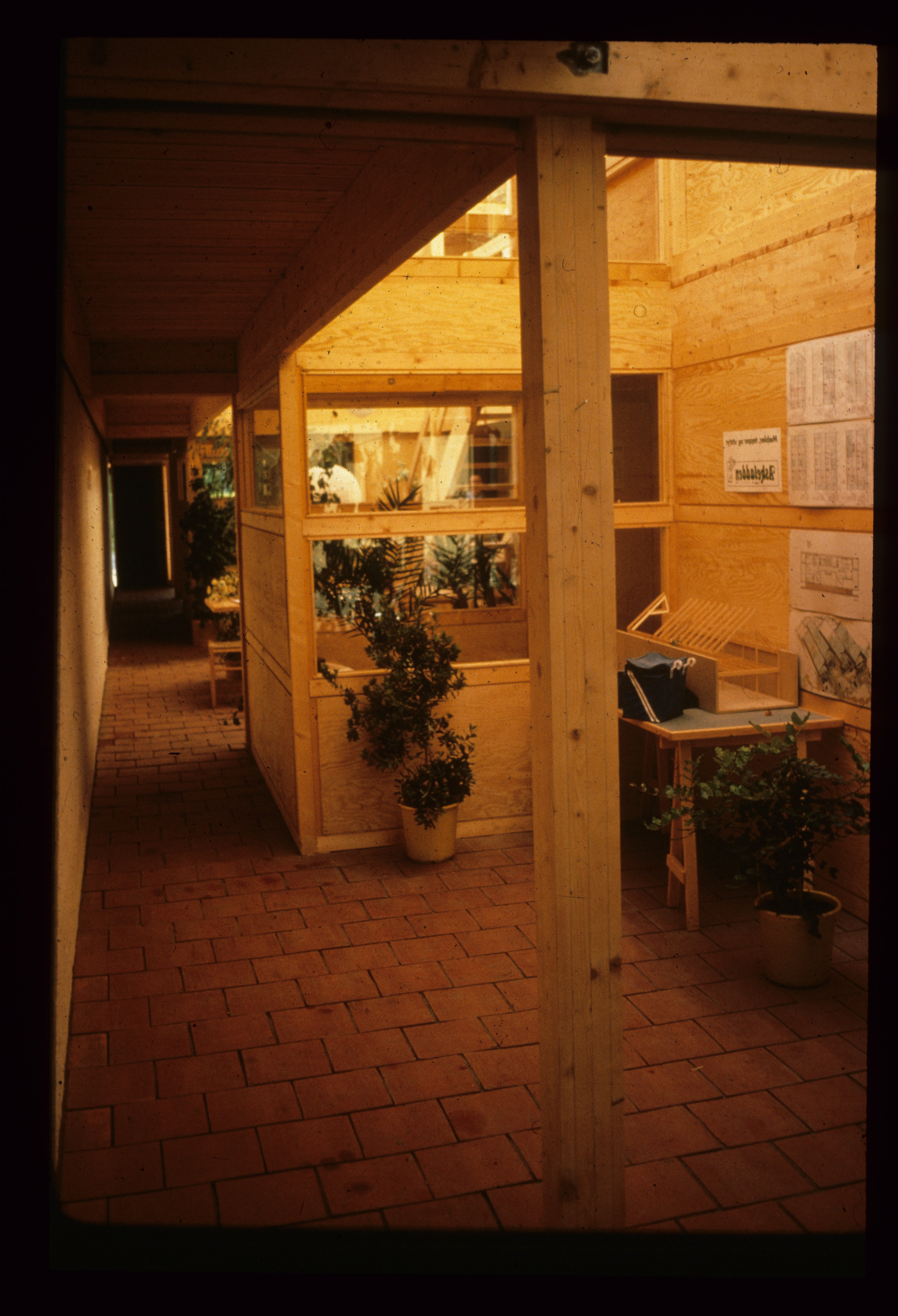 Interior of the experimental dwelling Skiboli, taken at the exhibition Bygg 81, in Trondheim 1981